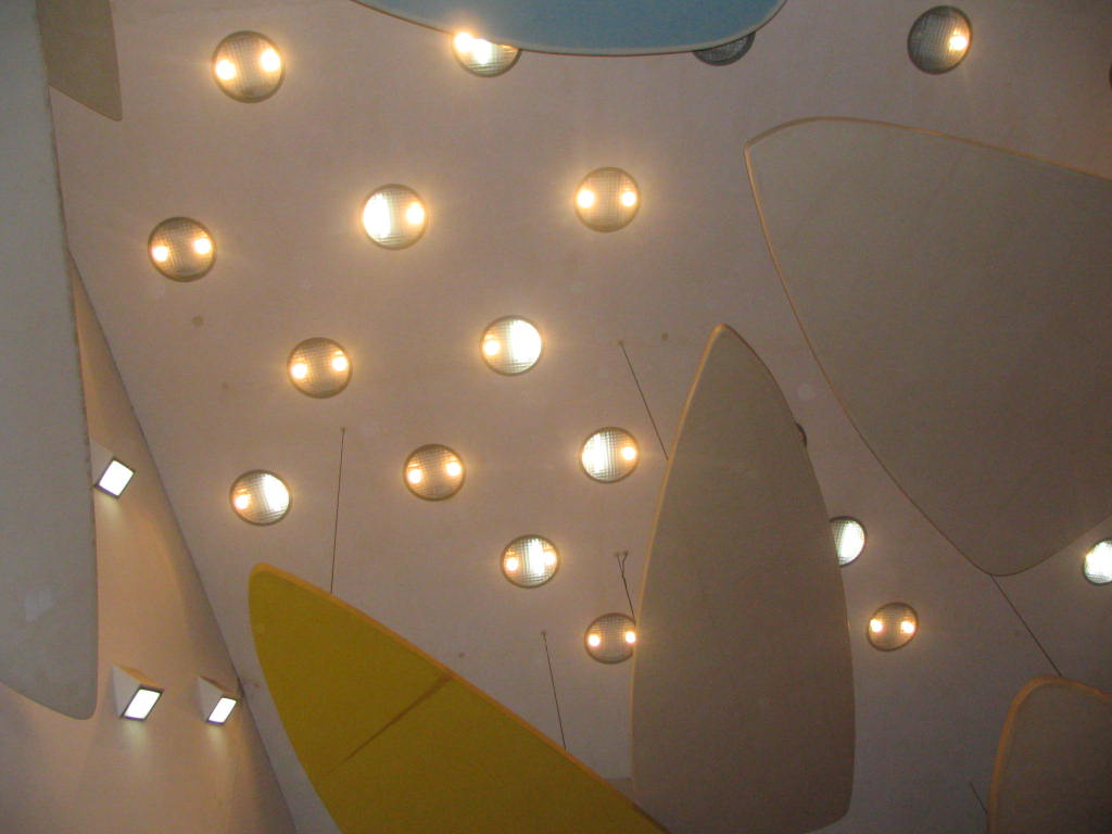 Aula magna ucv Caracas venezuela 3